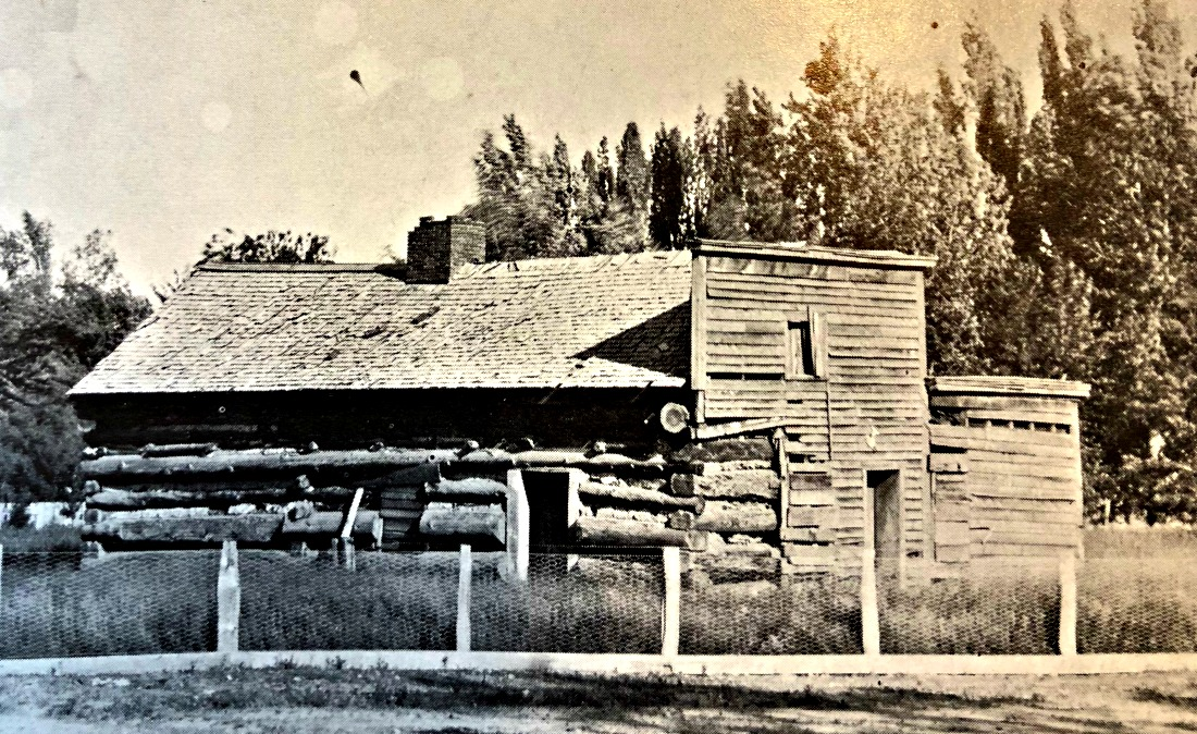 Nevada's first permanent building, a trading post built in 1850-1851. The settlement was initially known as Mormon Station. The building was destroyed in a fire in 1911.